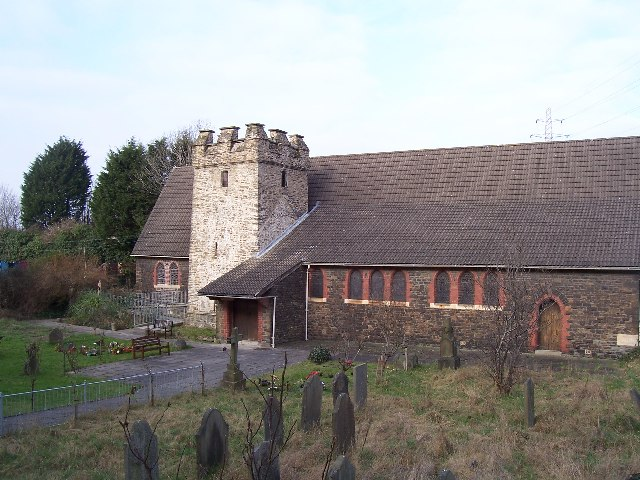 Llansawel Church. The Church of Saint Mary the Virgin, Llansawel. Now over-shadowed by the A48 road bridge over the river Neath.